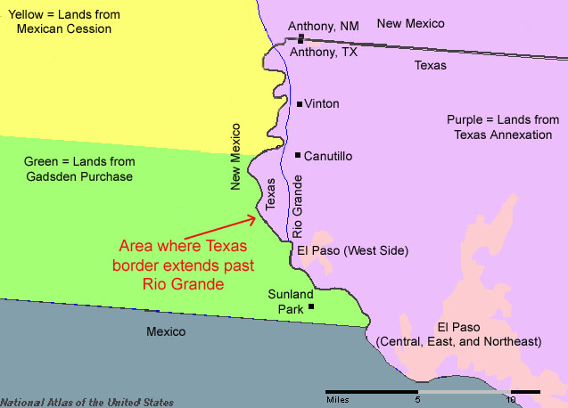 Map showing Country Club area near El Paso, Texas, current as of 2005. Partially constructed using the U.S. National Atlas, which is public domain.